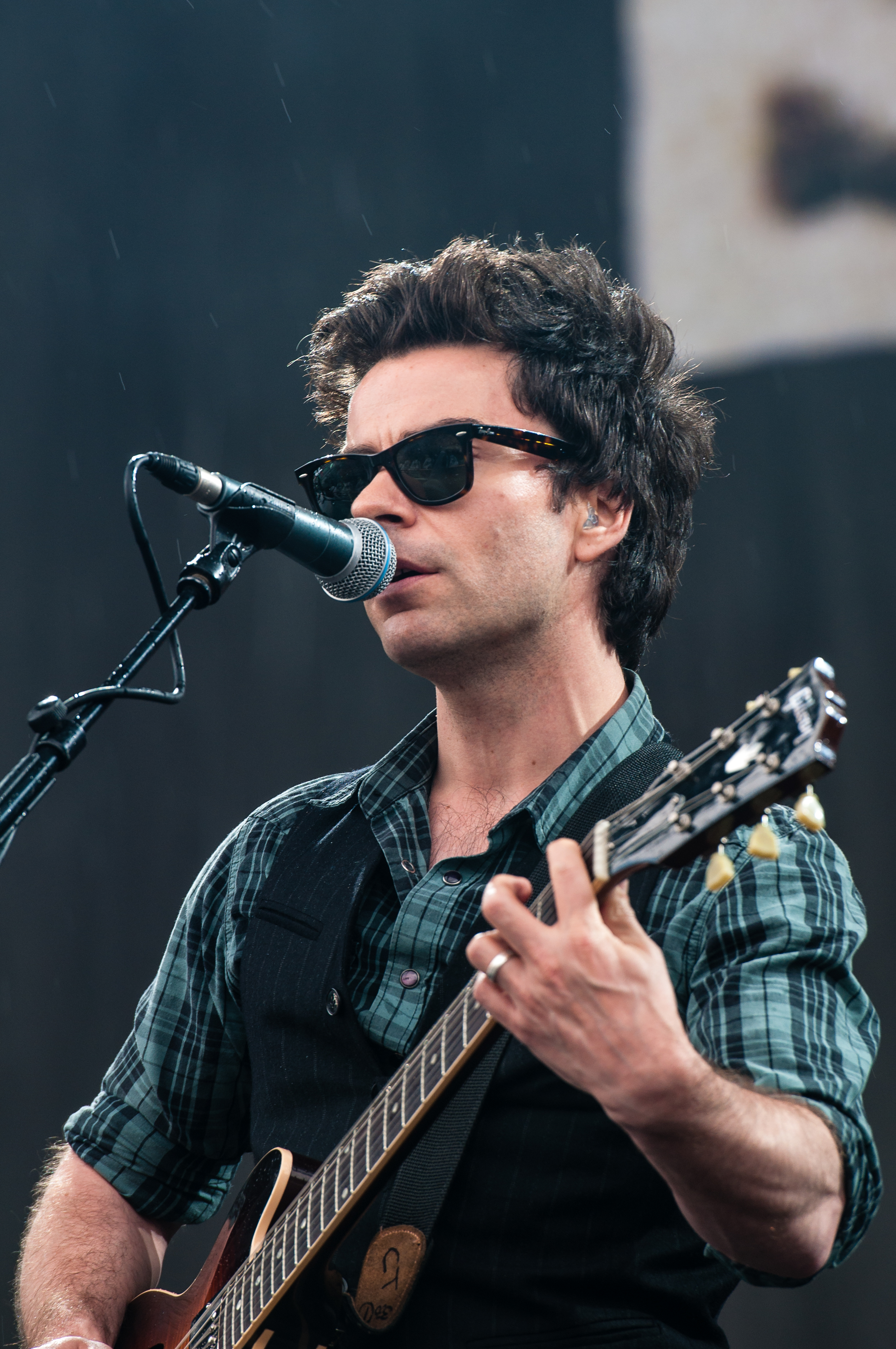 Stereophonics' Adam Zidani at Rock am Ring 2013